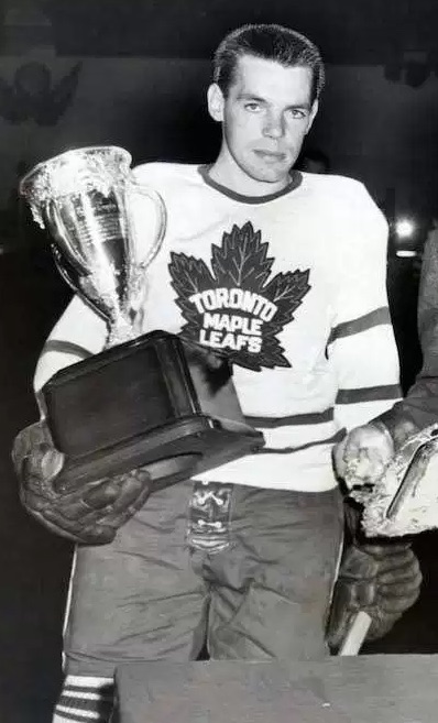 Howie Meeker presented with the Calder Memorial Trophy as Rookie of the Year, 1947